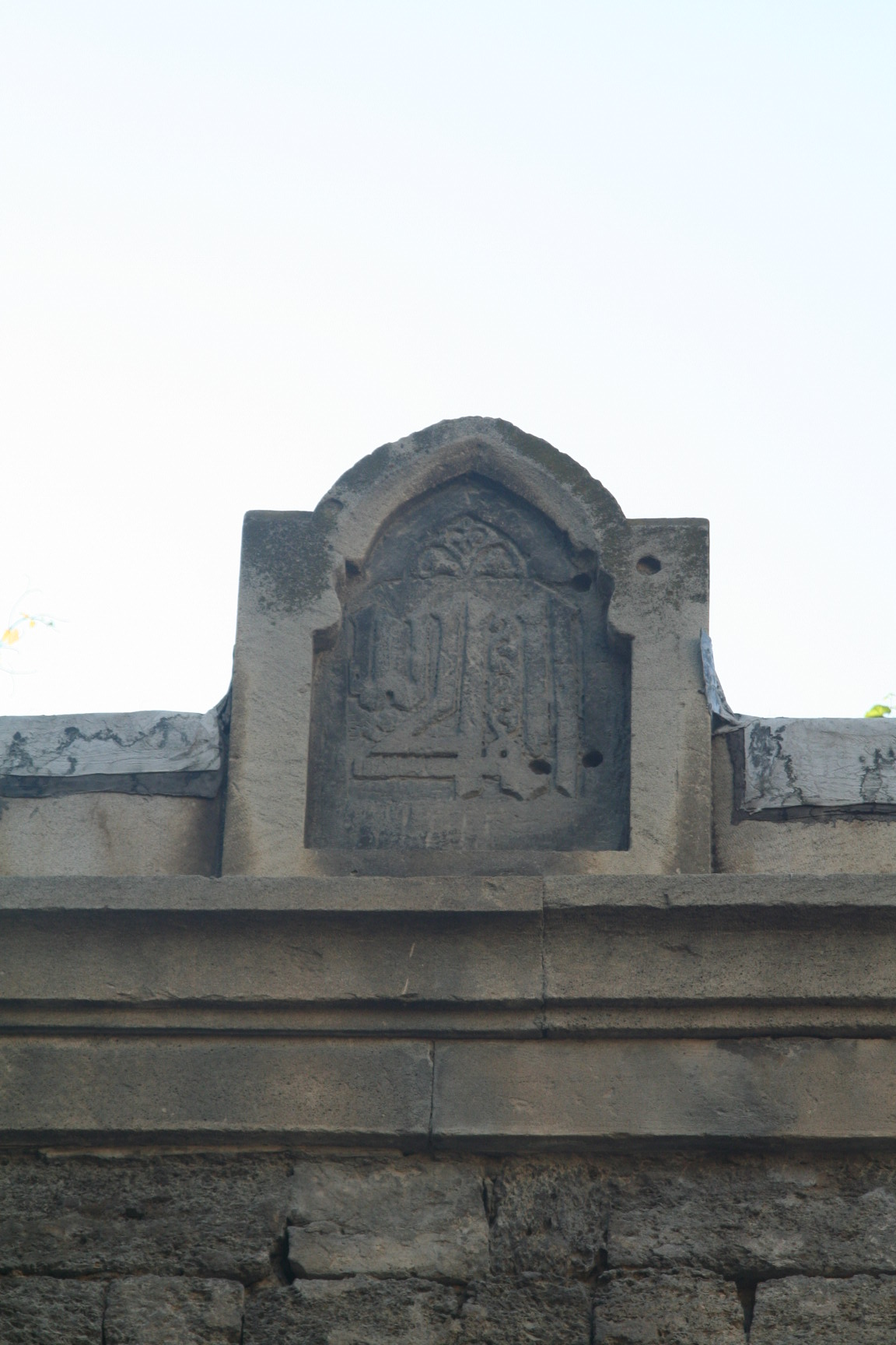 Ashur Mosque